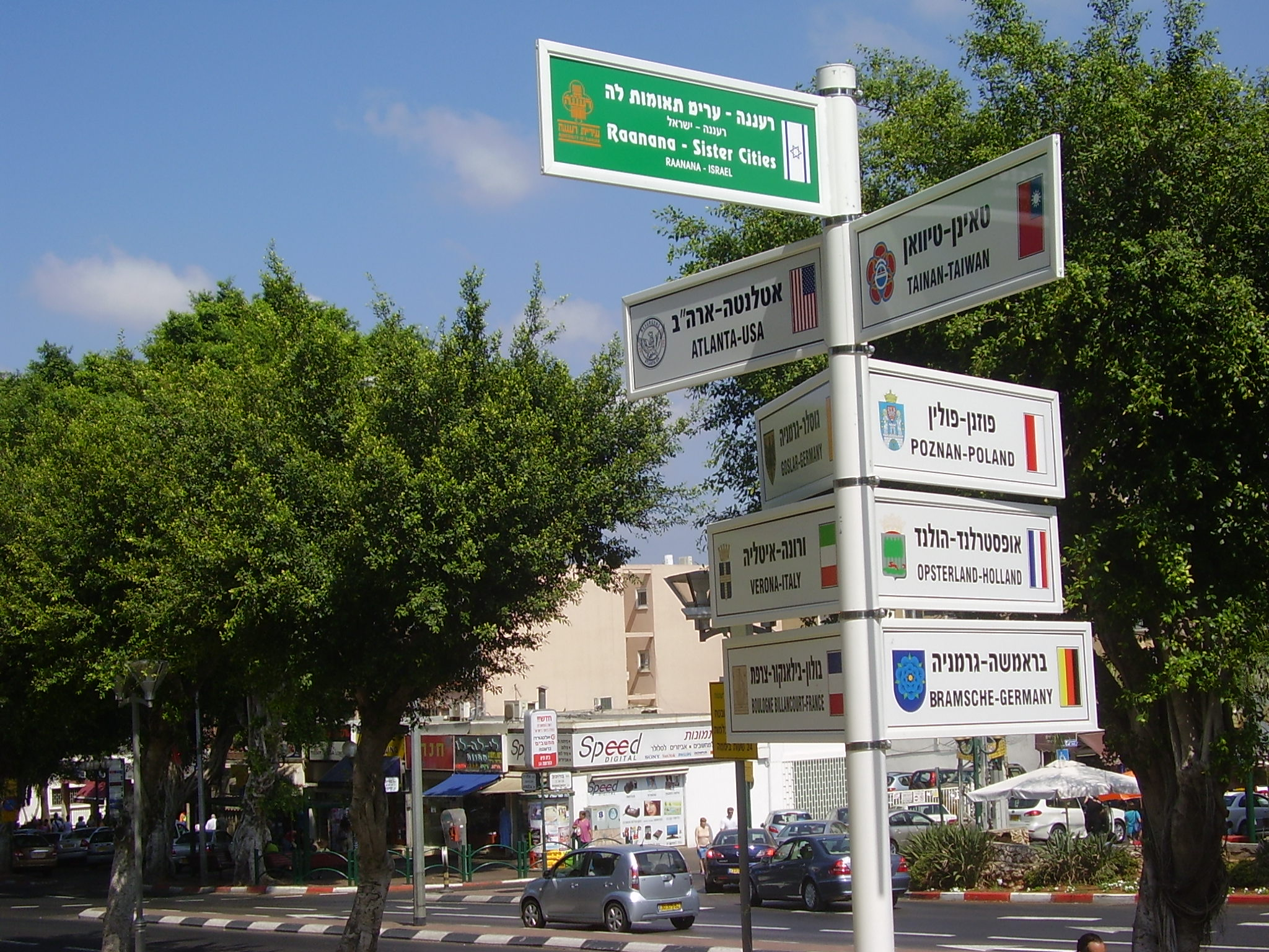 Raanana's twin cities